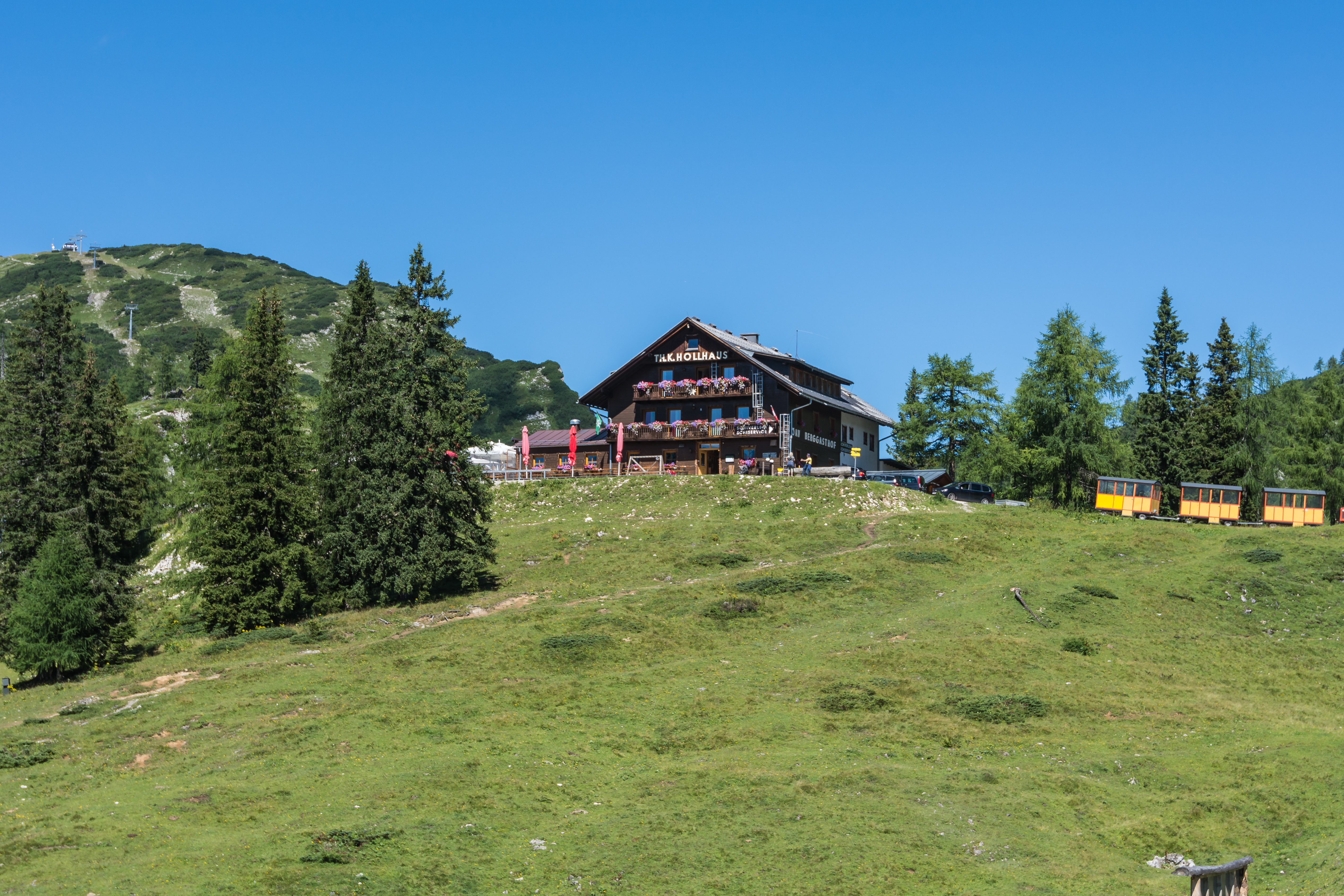 The alpine hut Hollhaus at the alpine pasture Tauplitzalm in Styria / Austria was built in 1924/25. Since 2008 the house is private property and is run as mountain inn under contract with Austrian Alpine Club ÖAV.